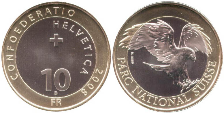 Swiss 10 franc commemorative coin "Swiss National Park - golden eagle"